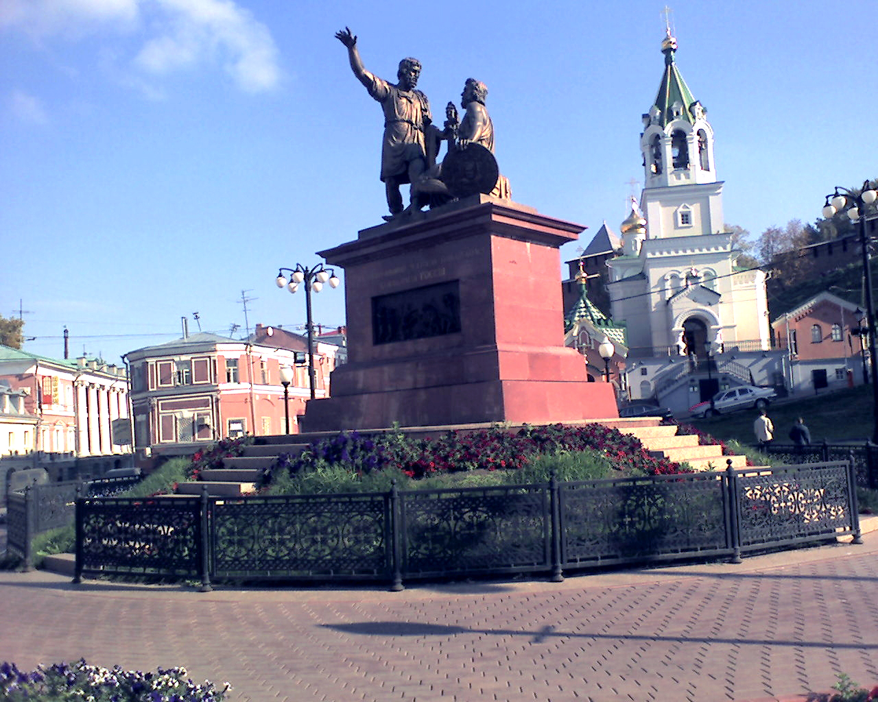 Monument to Minin and Pozharsky in Nizhny Novgorod